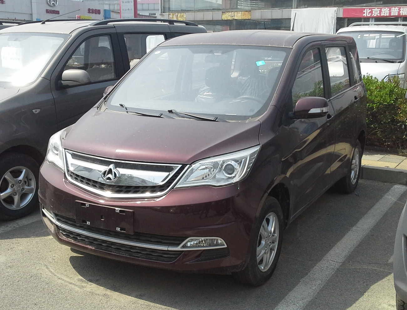 Chana Ouliwei photographed in Beijing, China.